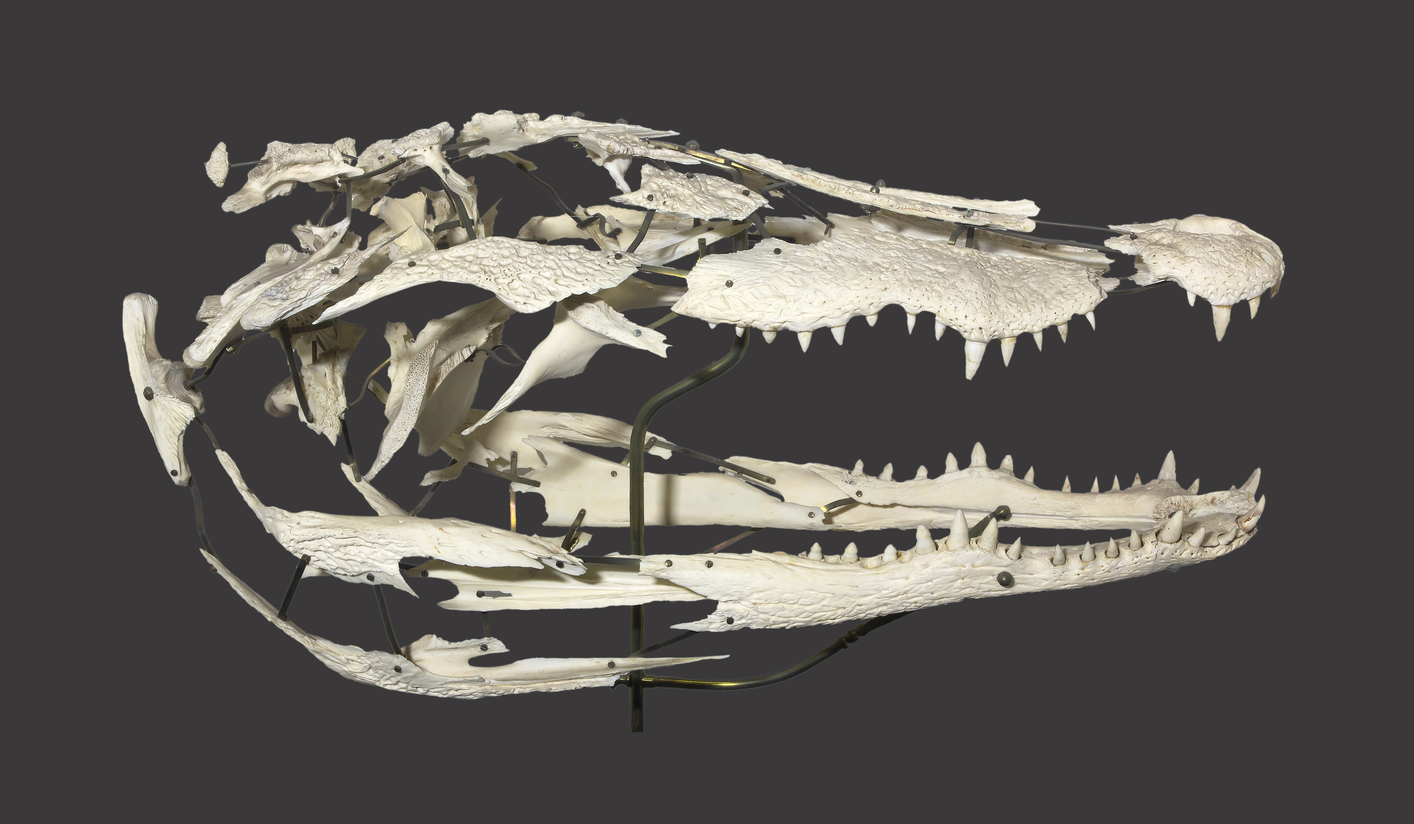 skull, Nile crocodile, size : 70 x 35 x 38 cm